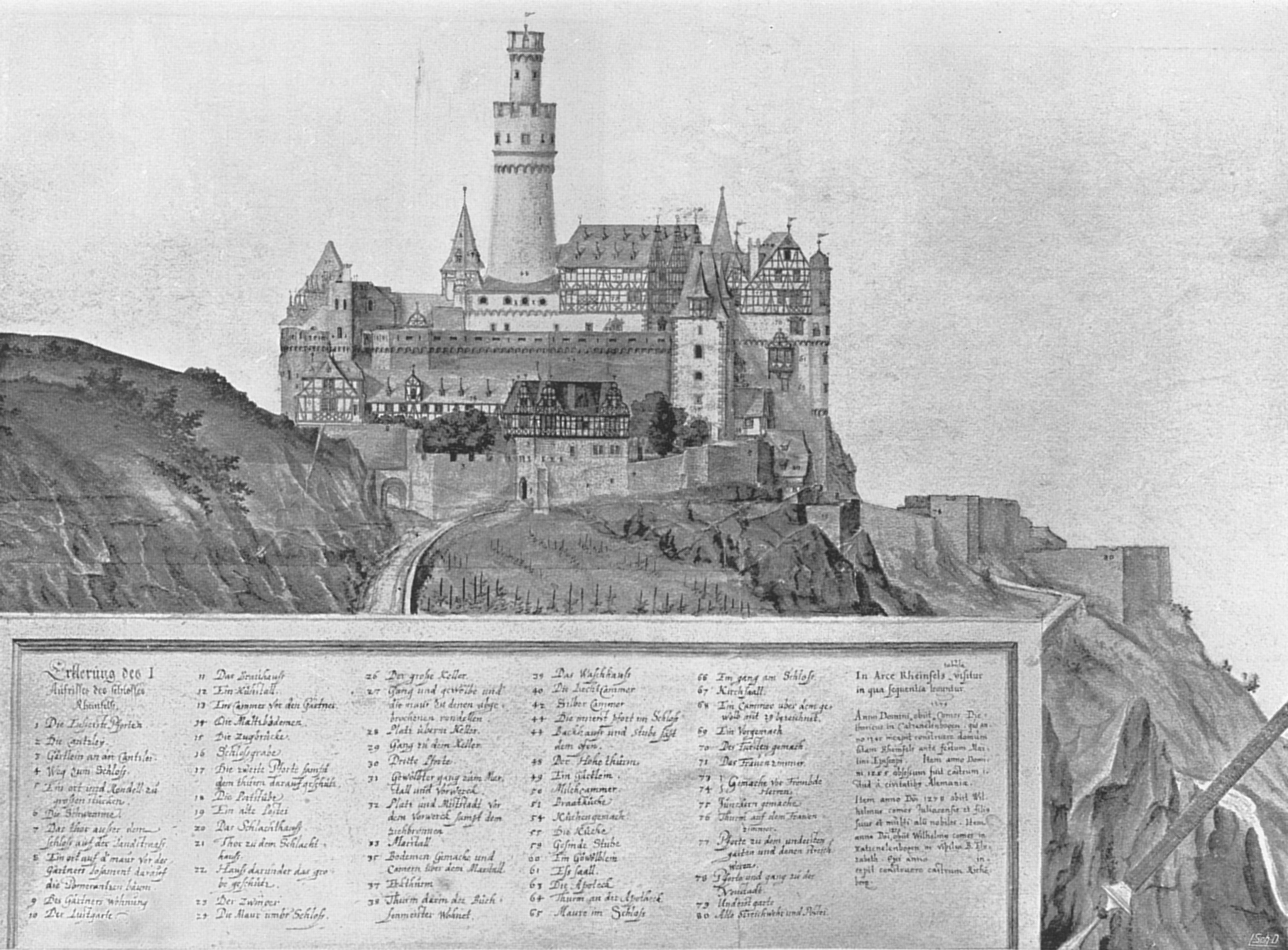 Rheinfels Castle, based upon an inquiry of W. Dilich